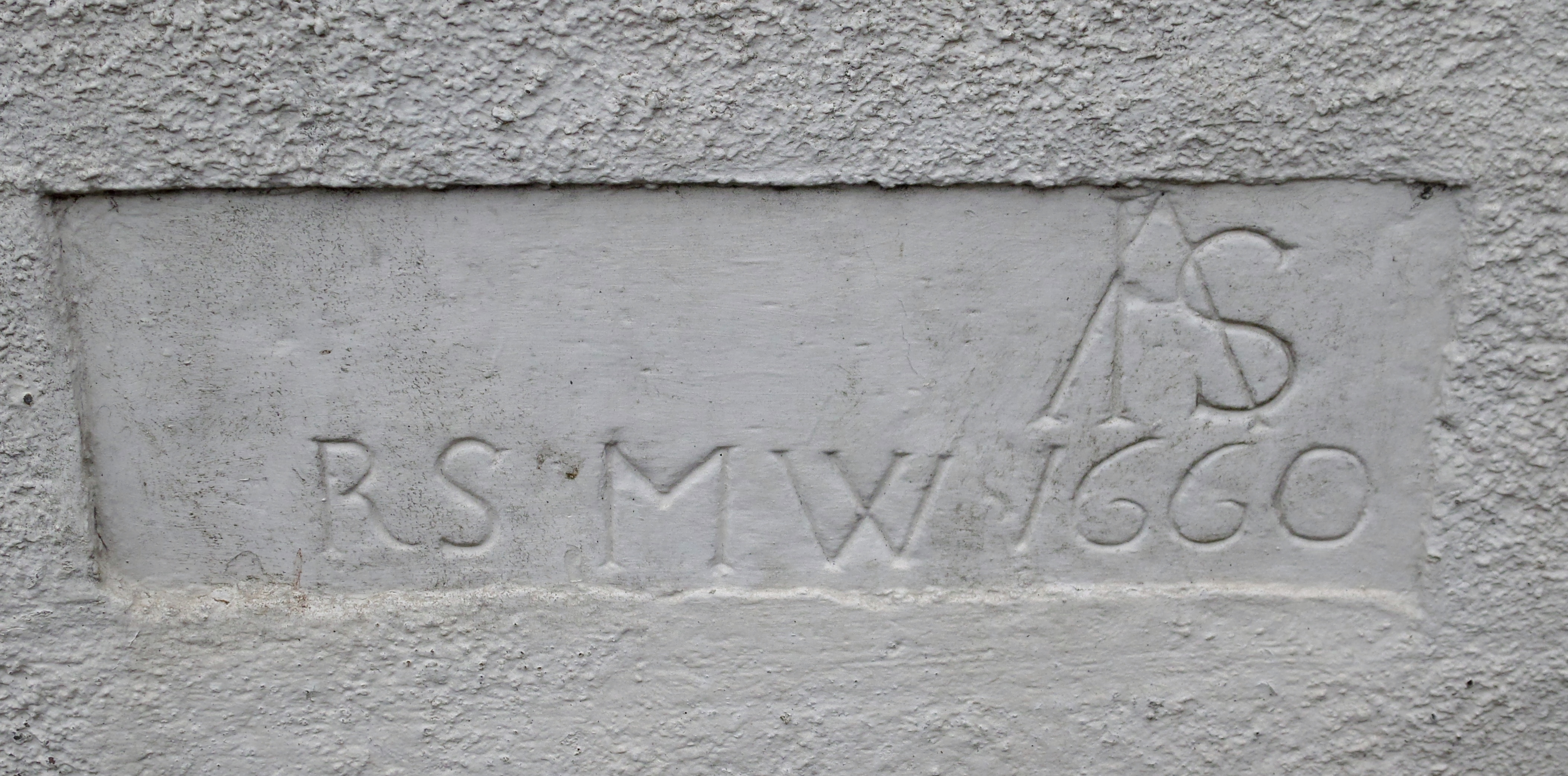 Probable 'Marriage Stone' at Kirktonhall, West Kilbride, North Ayrshire, Scotland.